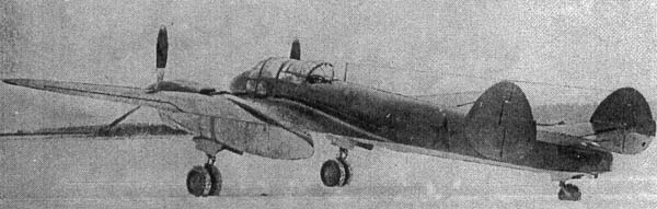 Yakovlev Yak-4